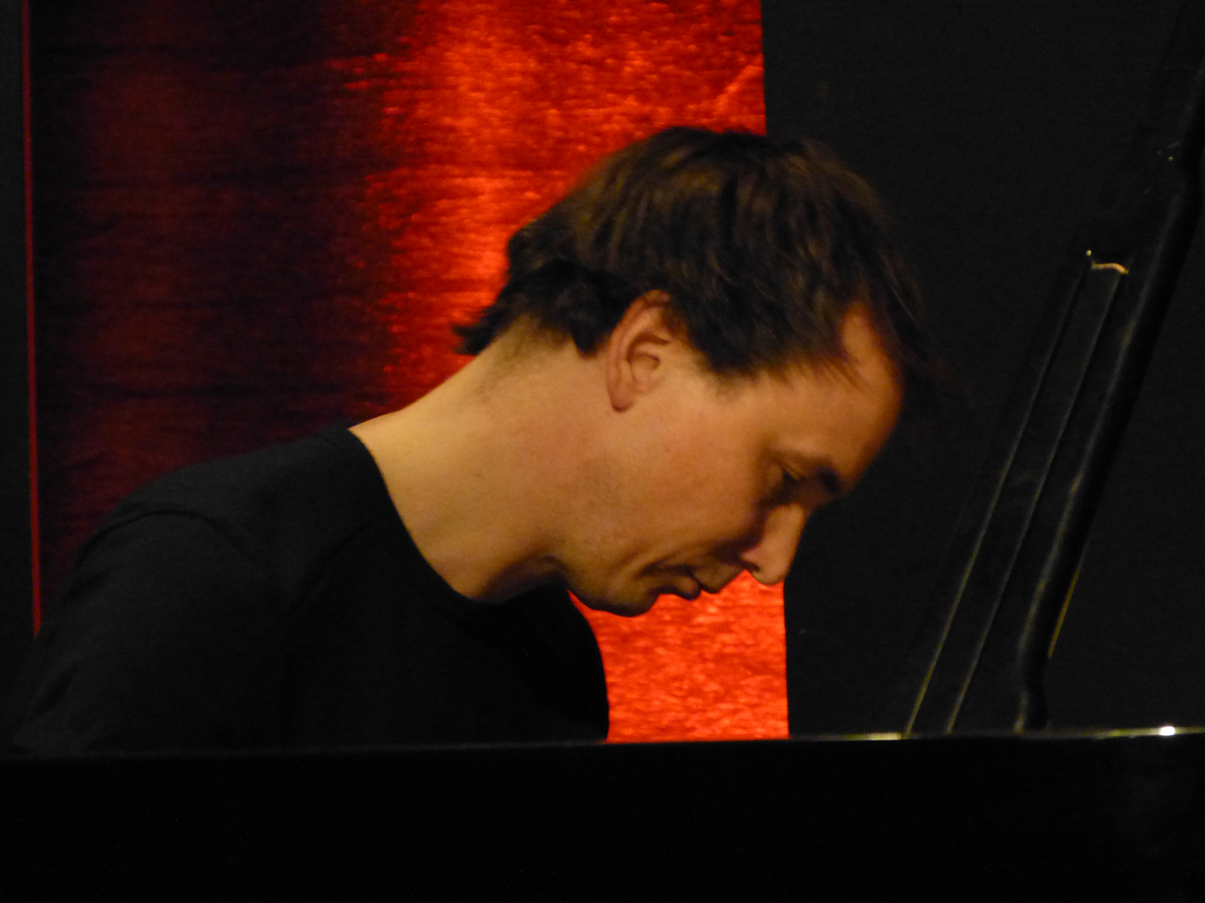 Jürgen Friedrich in concert at Michael Rüsenberg's jazzcity.de show at Loft (Cologne), Germany, January 17th, 2014